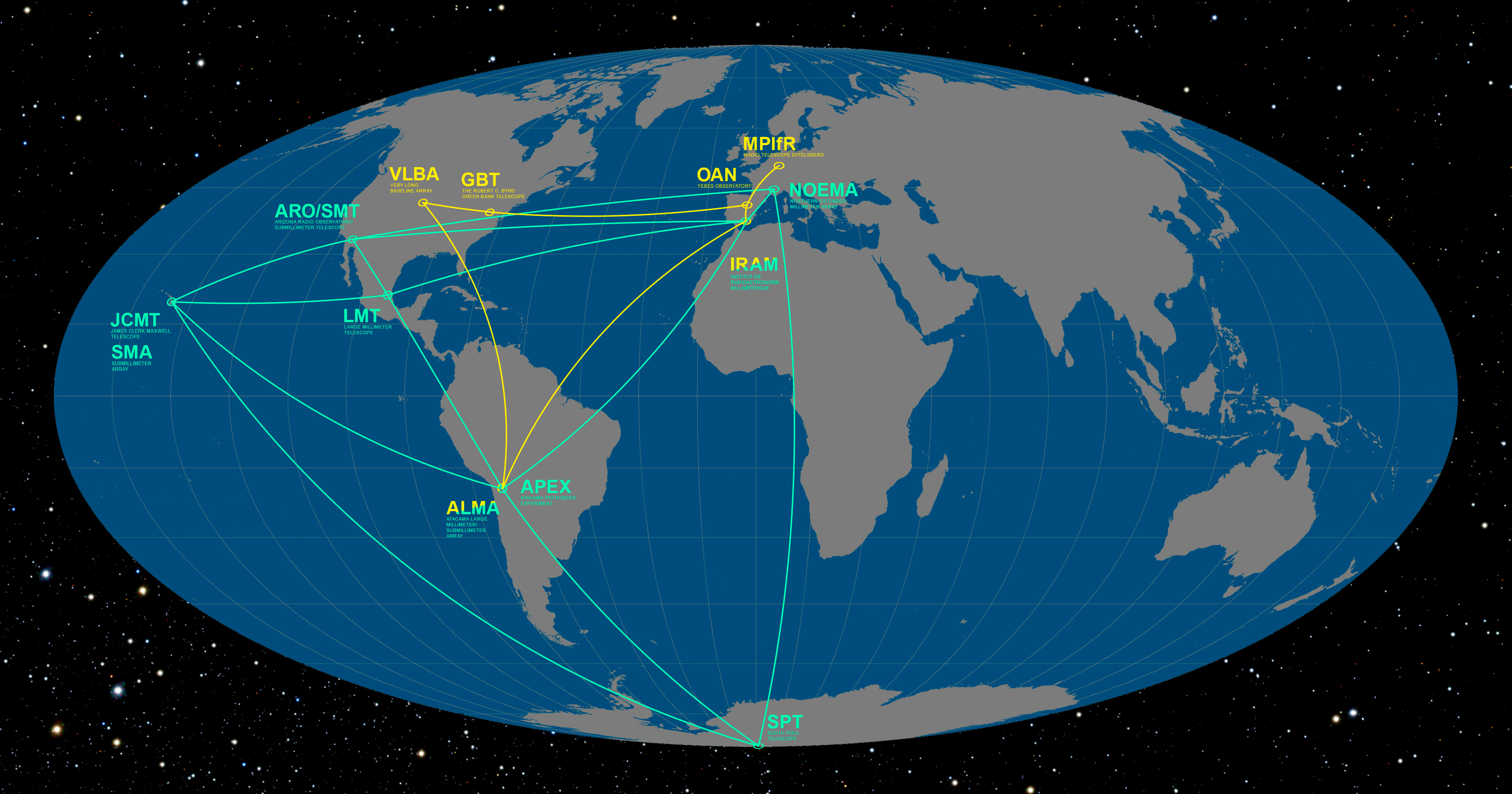 This infographic details the locations of the participating telescopes of the Event Horizon Telescope (EHT) and the Global mm-VLBI Array (GMVA). Their goal is to image, for the very first time, the shadow of the event horizon of the supermassive black hole at the centre of the Milky Way, as well as to study the properties of the accretion and outflow around the Galactic Centre.